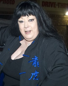 Satana_profile picture